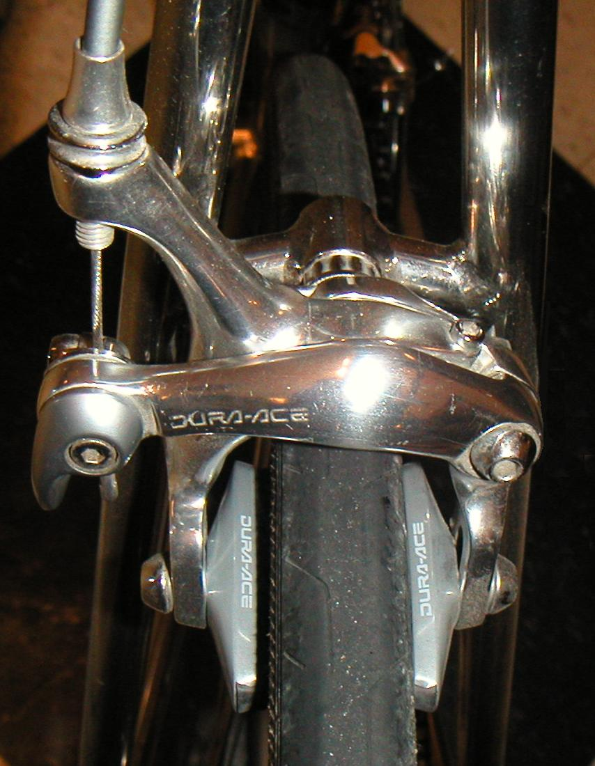 Taken by Andrew Dressel